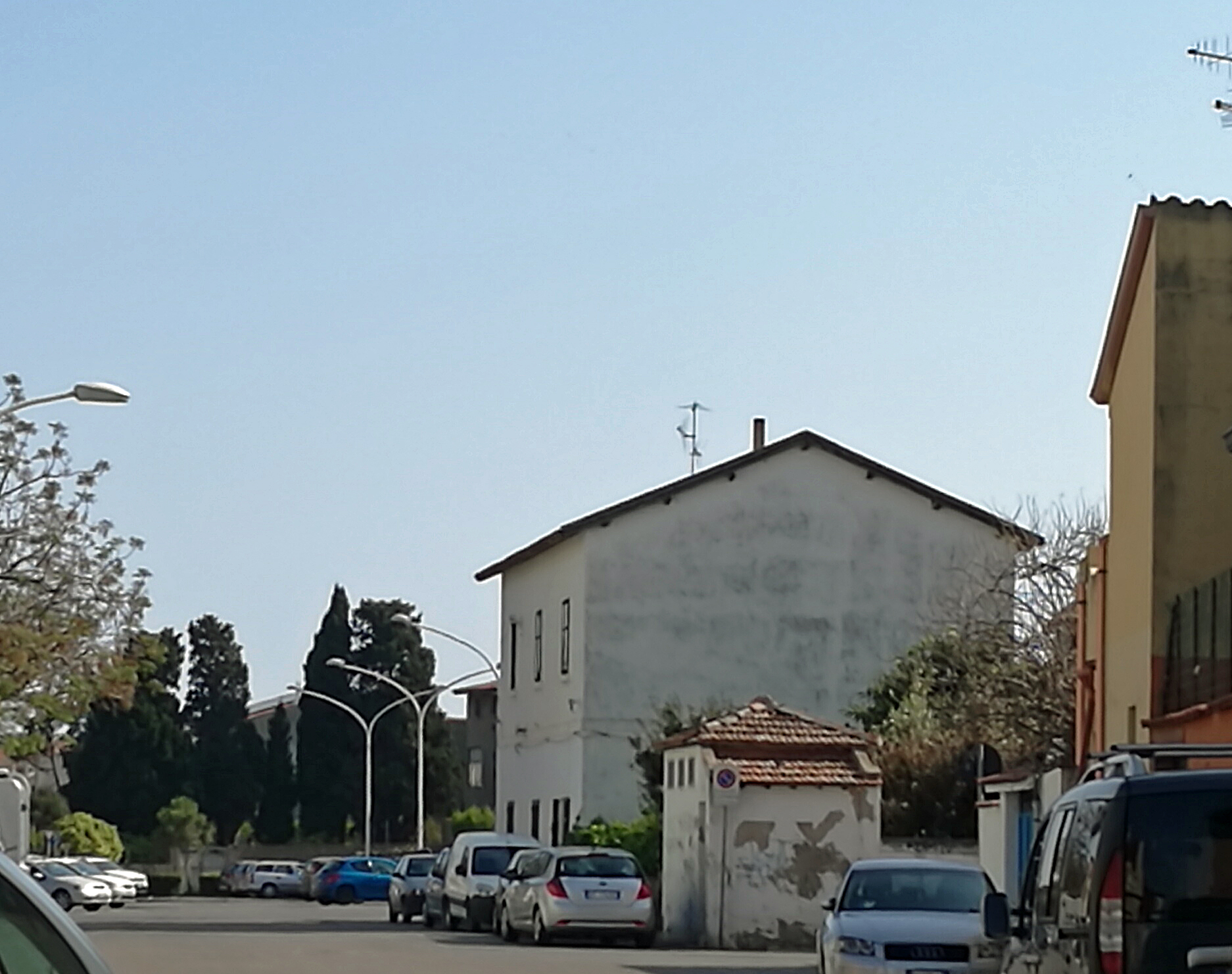 The former yard of the Sant'Antioco railway station (Sardinia, Italy), in use between 1926 and 1974 along the Siliqua-San Giovanni Suergiu-Calasetta railway. The white building in the middle is the former passenger building of the station